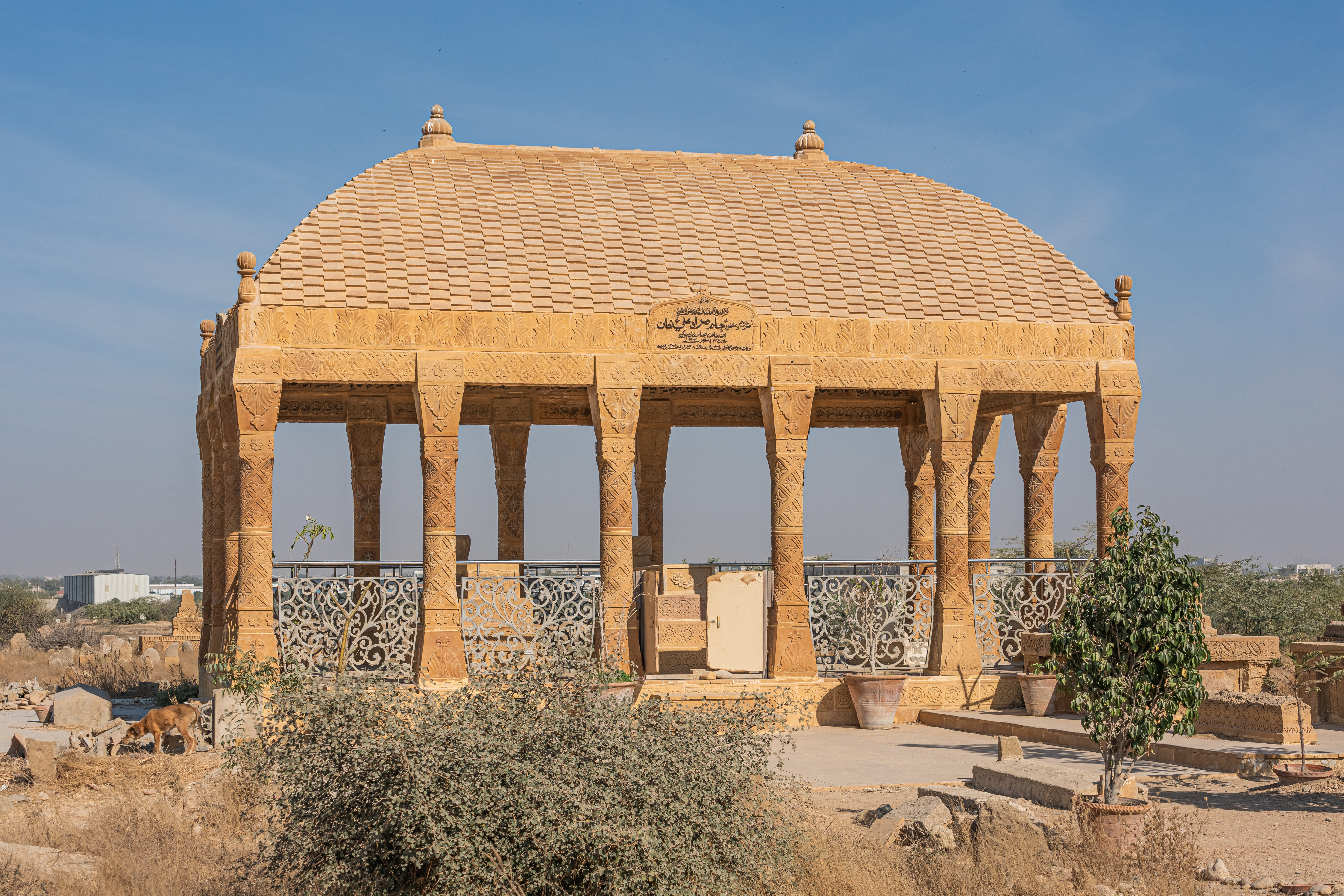 Chaukhandi Necropolis near Karachi, Pakistan